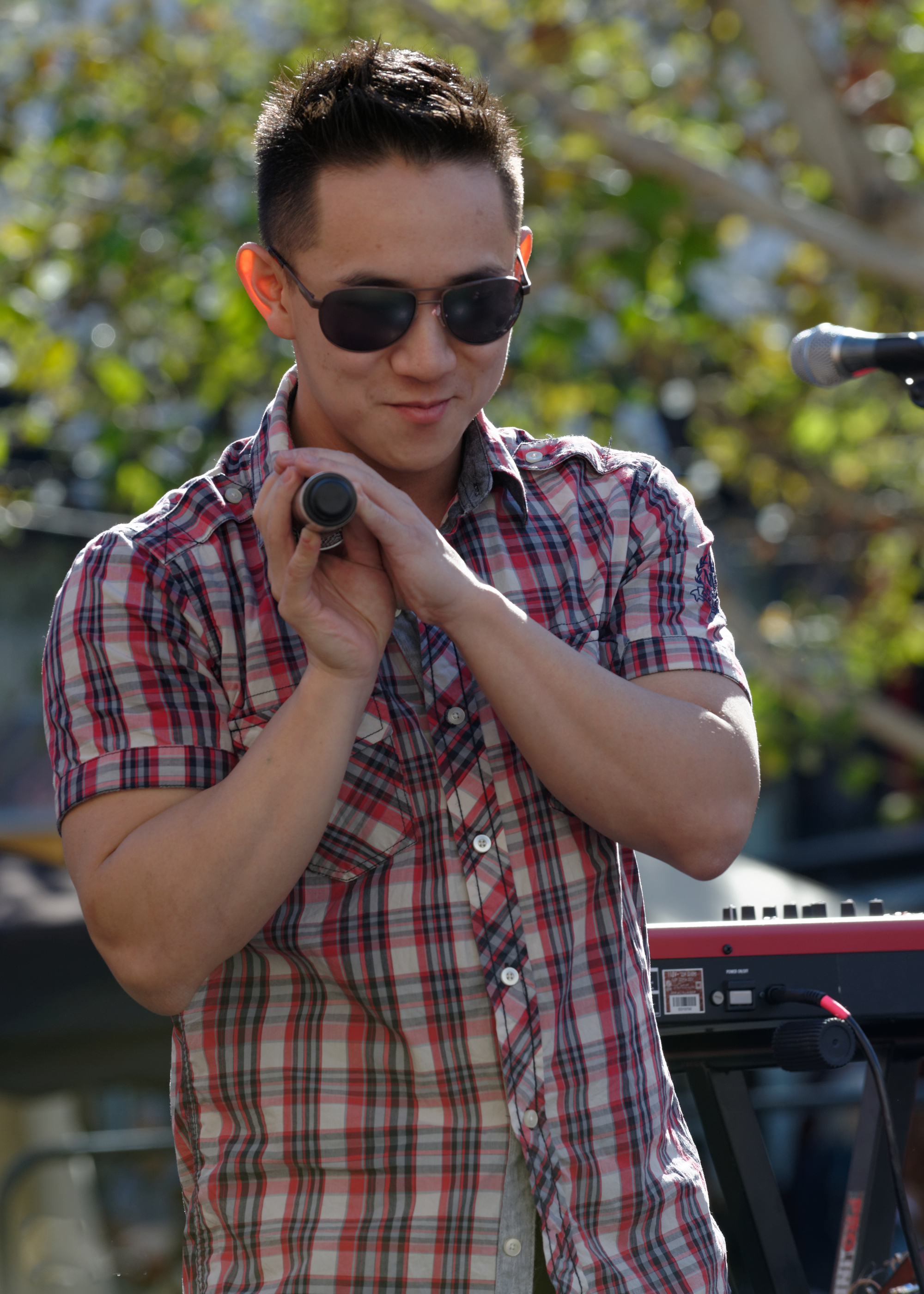 Jason Chen performing live at the Americana at Brand in Glendale California on February 1st, 2014. Part of the Lunar New Year Celebration